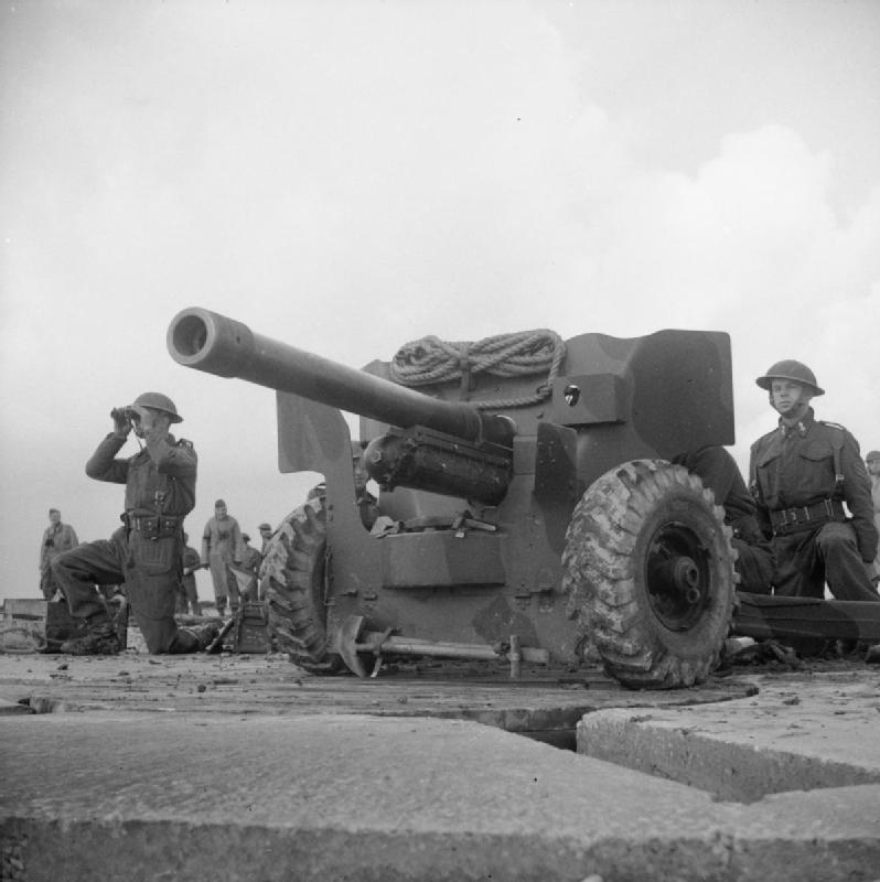 The British Army in the United Kingdom 1939-45 6-pdr anti-tank gun of 86th Anti-Tank Regiment prepares to fire during a practice shoot at the Royal Artillery ranges at Lydd in Kent, 24 September 1942.